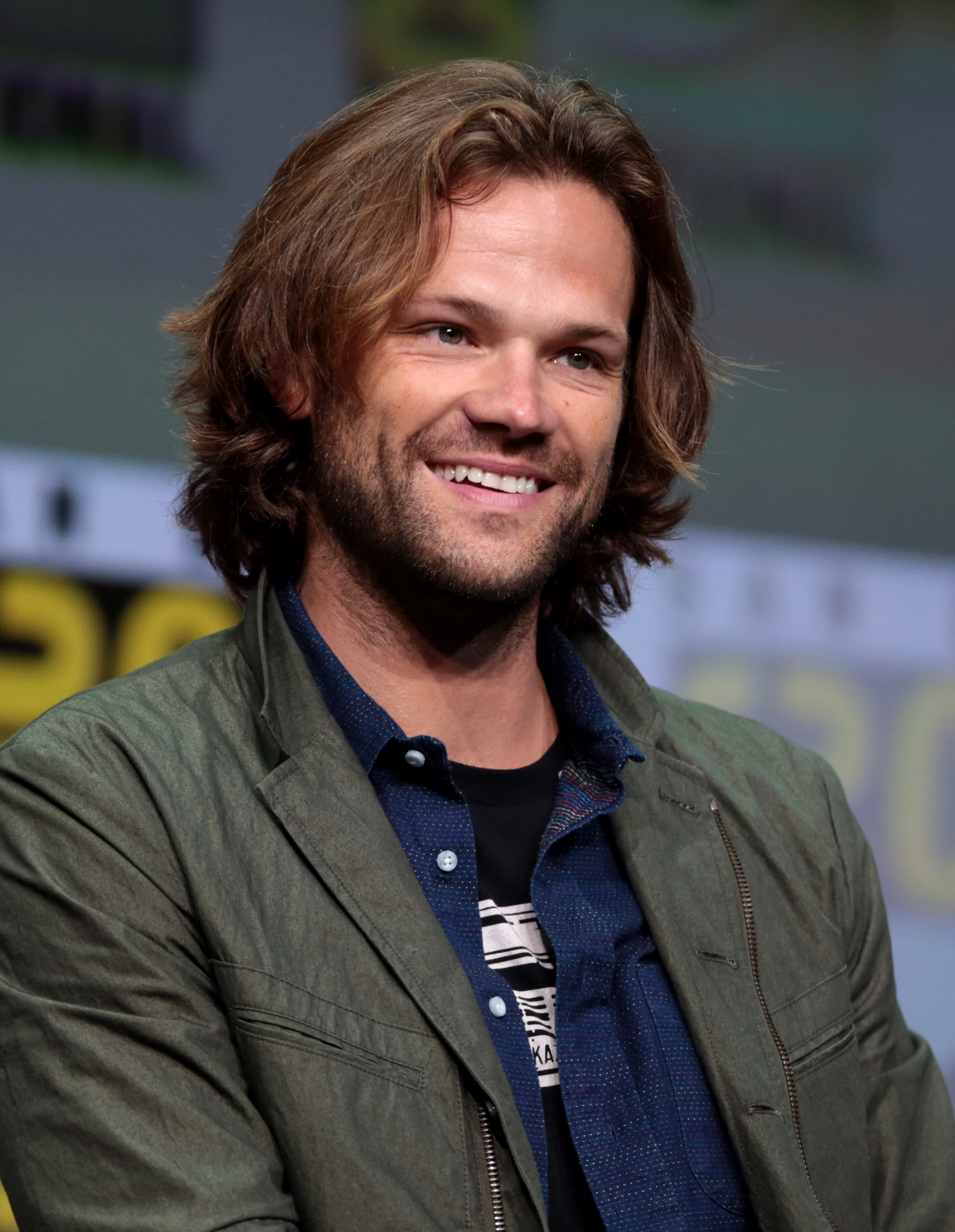 Jared Padalecki speaking at the 2017 San Diego Comic Con International, for "Supernatural", at the San Diego Convention Center in San Diego, California.